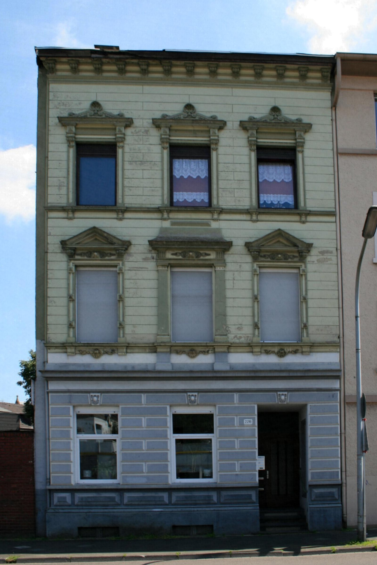 Cultural heritage monument No. R 076 in Mönchengladbach